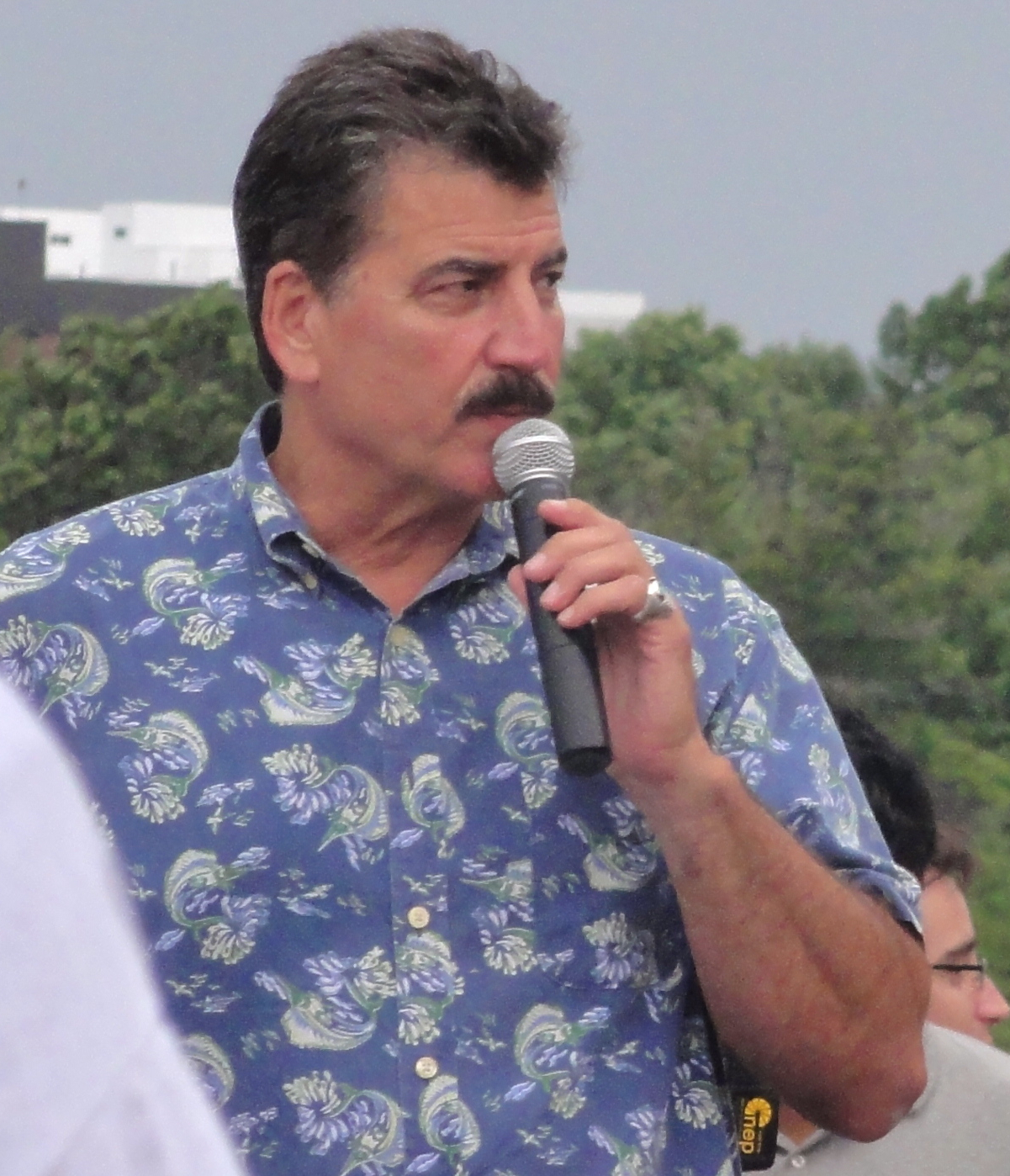 Keith Hernandez announcing a hamburger eating contest outside Citi Field prior to a Mets - Braves game, August 2011. → This file has been extracted from another image: File:Keith Hernandez 2011-2.JPG.